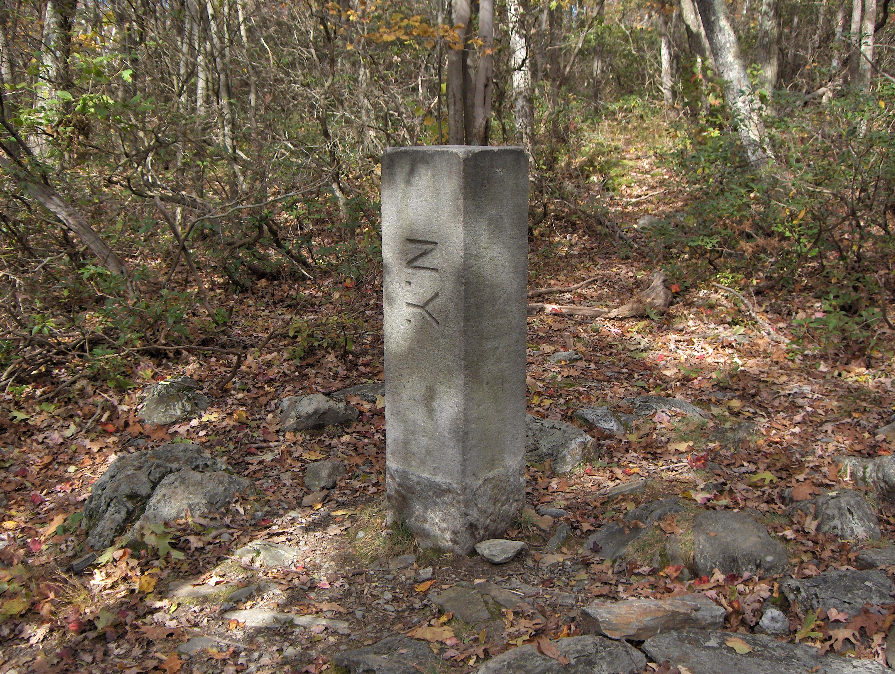 Stone marker in southern Taconic Mountains at tripoint of New York, Connecticut and Massachusetts